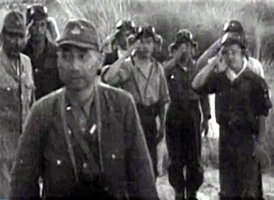 The photograph shows the men of the first actual Kamikaze unit to make an attack on a US ship. The men have been offerred a ceremonial toast of water as a farewell and are saluting. In foreground is Vice Admiral Takijiro Onishi, who organized the first kamikaze unit.